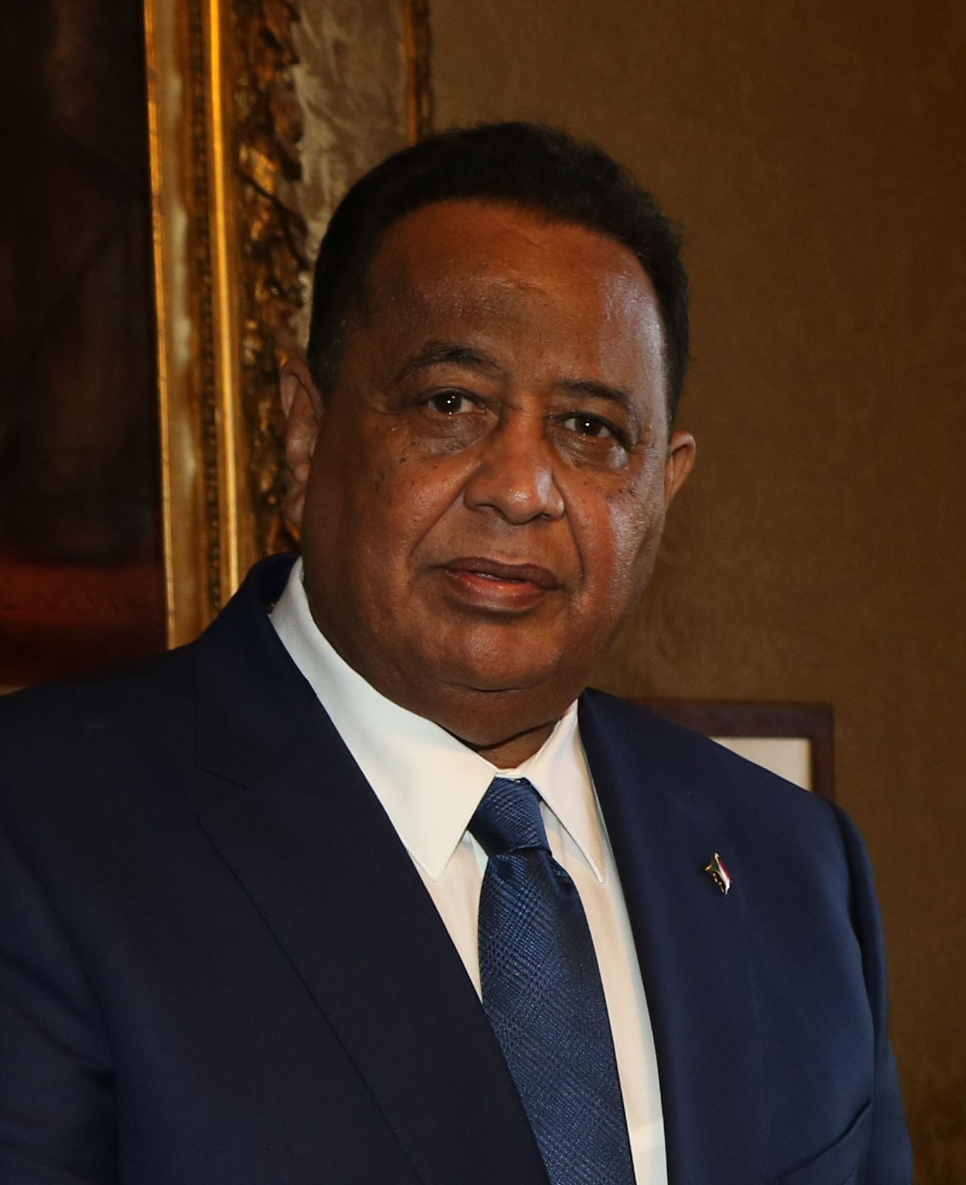 Foreign Secretary Boris Johnson meeting Sudanese Foreign Secretary Ibrahim Ghandour in London.